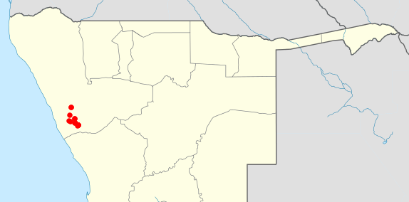 Range of the Etendaka round-eared elephant shrew based on 16 specimens reported in 2014, cf. J.P.Dumbacher et al.